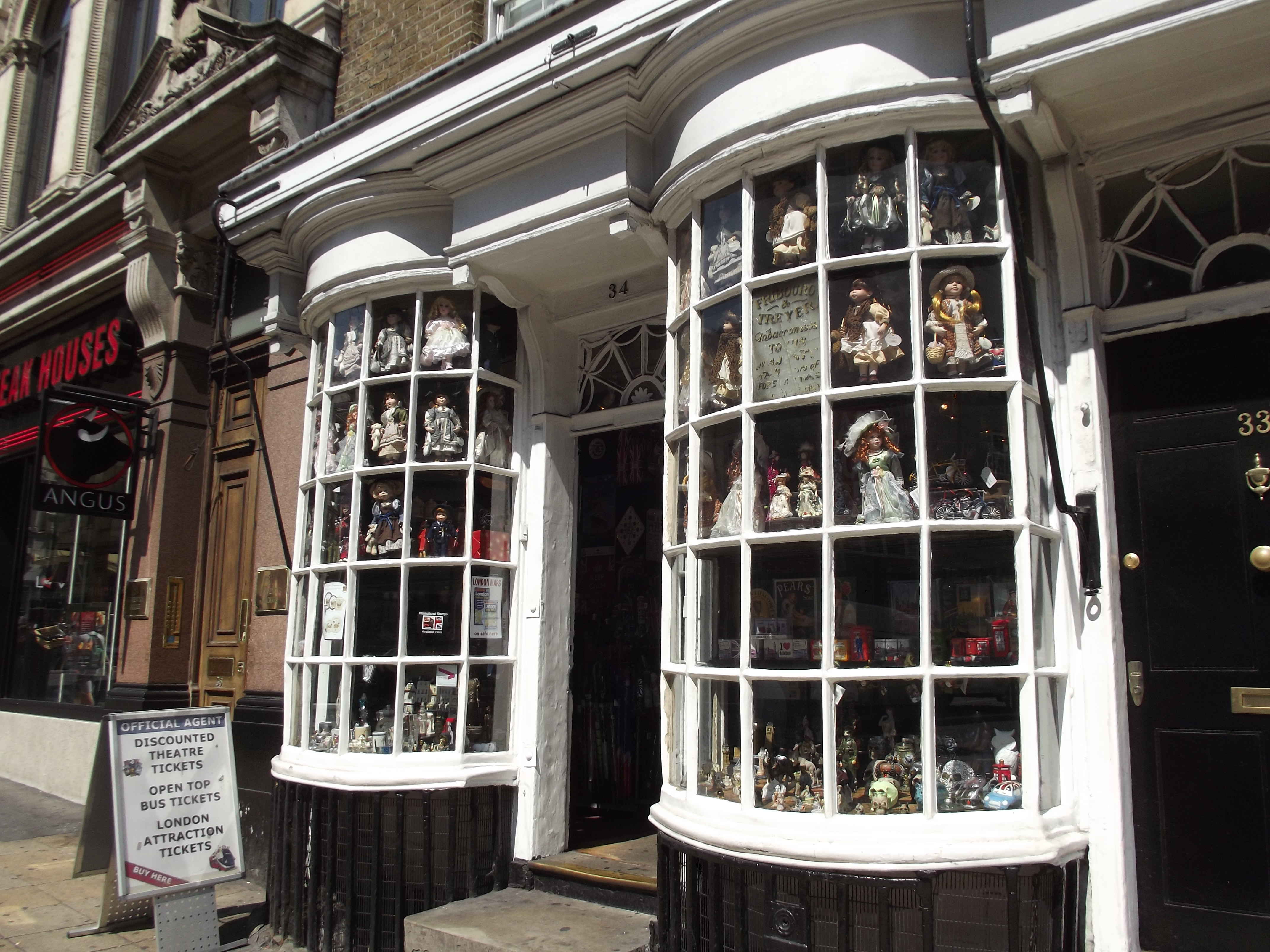 Many years ago this was the location of Fribourg & Treyer - they were a firm of tobacconists. They used to make about a ton of snuff each month, which sold world-wide. Strange names, and interesting fragrances. They also made cigarettes, including their "No1 Turkish" which were truly amazing - they had a unique taste and odour. Today, they are no longer trading and the shop has become a centre for theatre tickets and tourist souvenirs of London. I am pleased to see that the shop front has not been changed. You will find this at the top of Haymarket - pass it by and spend some time at the National Gallery, which is about 10 minutes' walk away, down the hill. James Bond afficionados may recall that Fribourg & Treyer made JB's cigarettes: I forget which book that was in though.